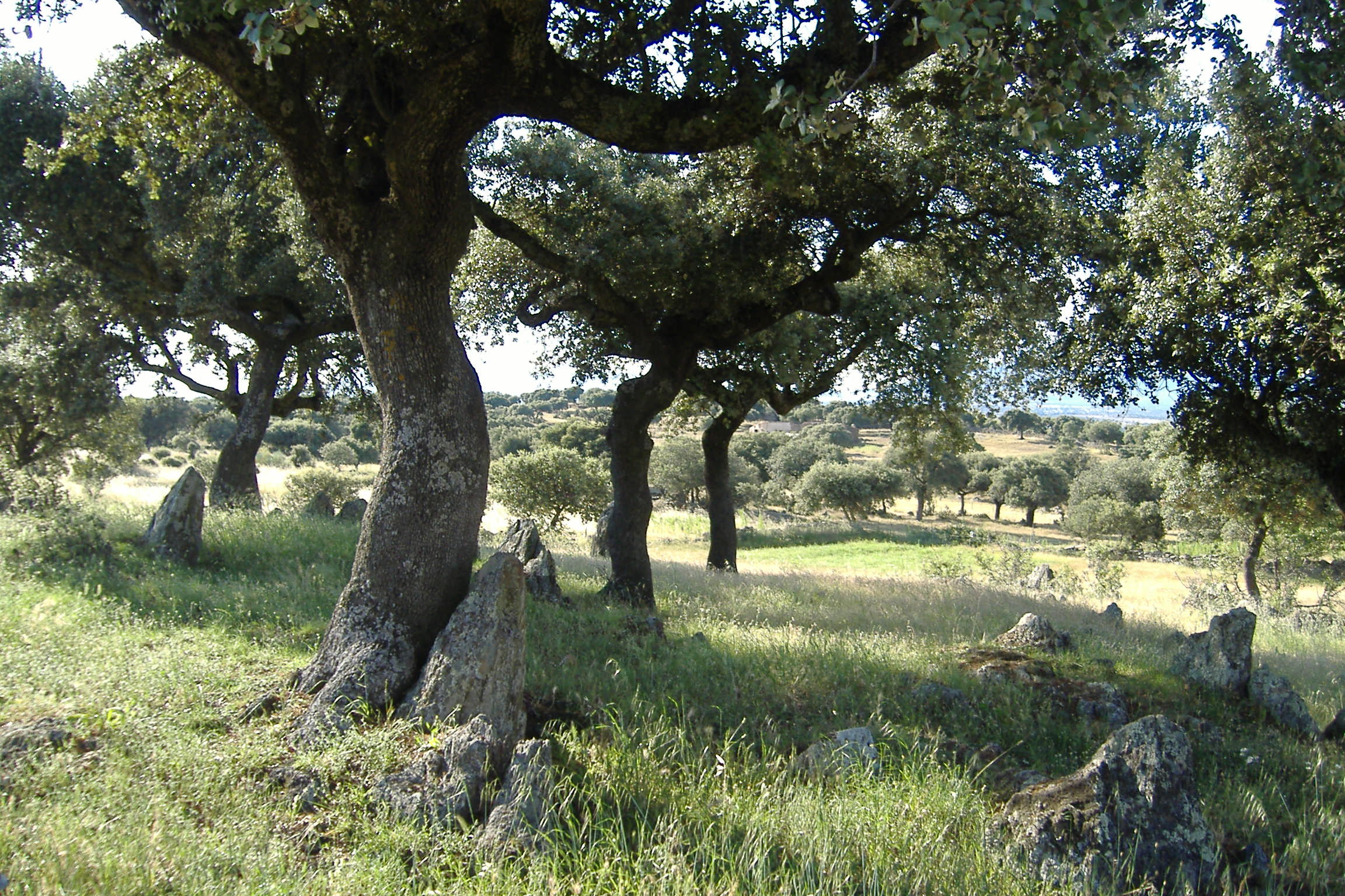 Landscape of pasture in Talaván (Extremadura, Spain)